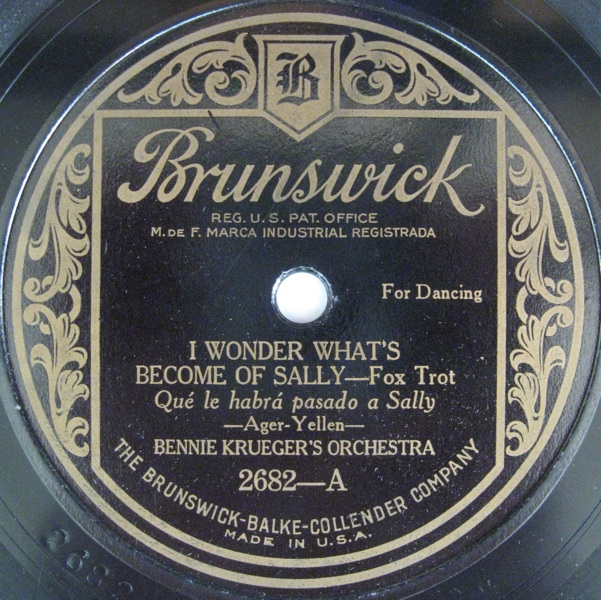 Bennie Krueger Orchestra shellack I Wonder What Become of Sally